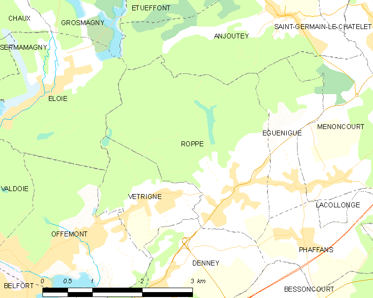 Map of French municipality Roppe